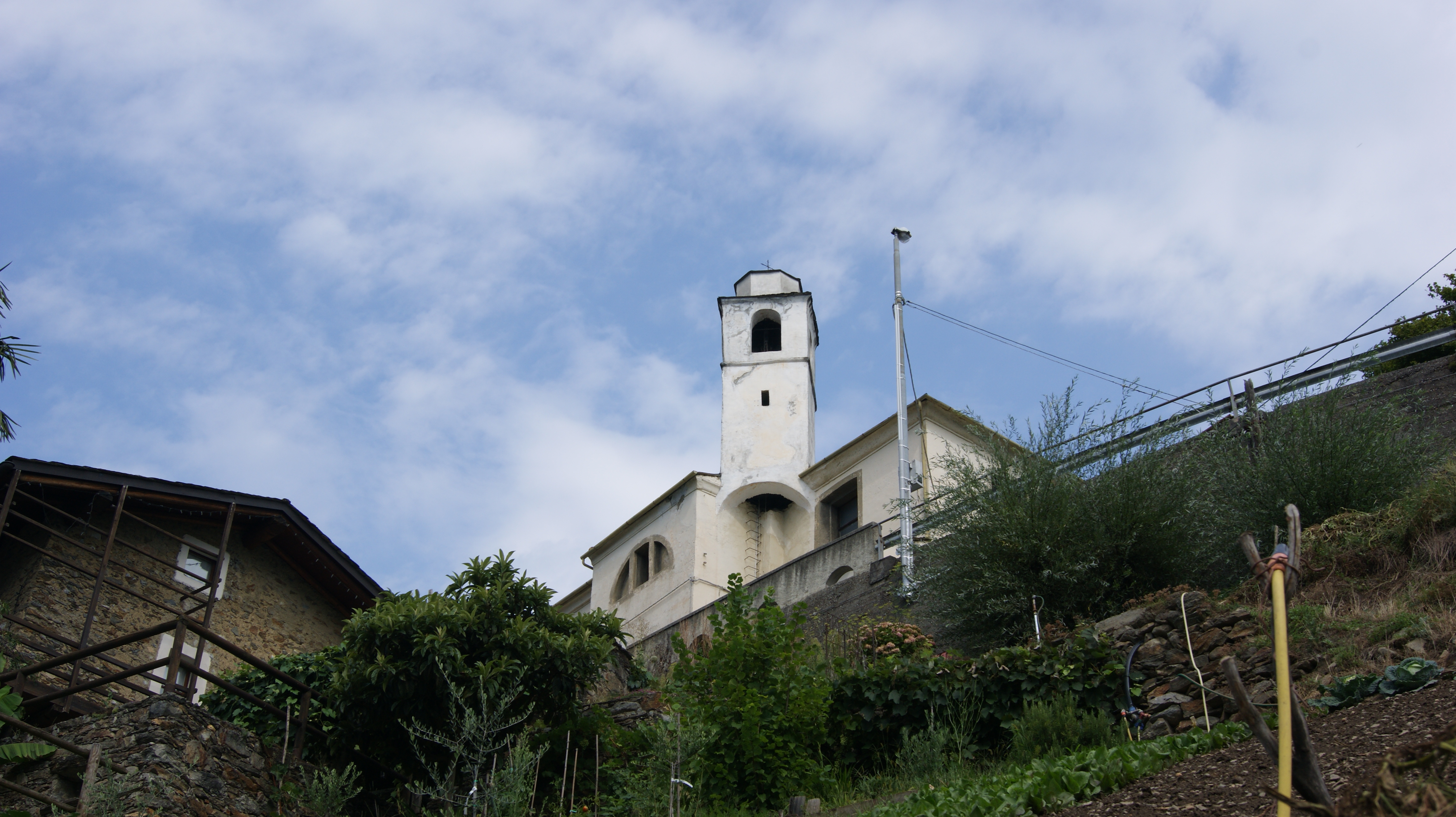 Roncaiola, part of Tirano in Italy. Church of Santo Stefano in Roncaiola, part of Tirano in Italy.